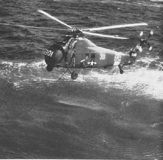 A Sikorsky HSS Seabat (after 1962 SH-34G/H) of U.S. Naval Reserve helicopter anti-submarine squadron HS-831 dipping its sonar in 1960.